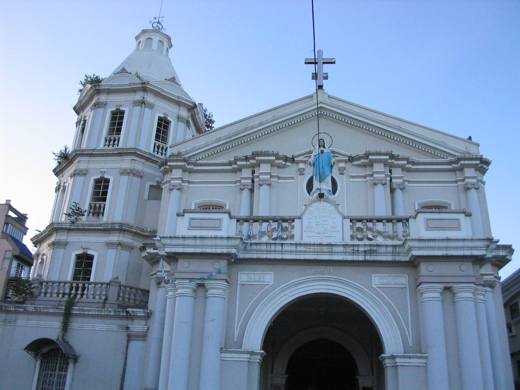 The Metropolitan Cathedral of the Archdiocese of San Fernando in Pampanga.